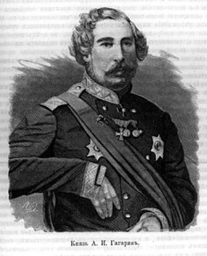 Gagarin, Aleksandr Ivanovich.